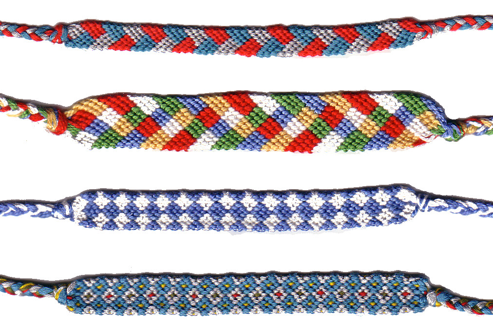 Friendship bracelets - sierra loves hunter harrison square forms